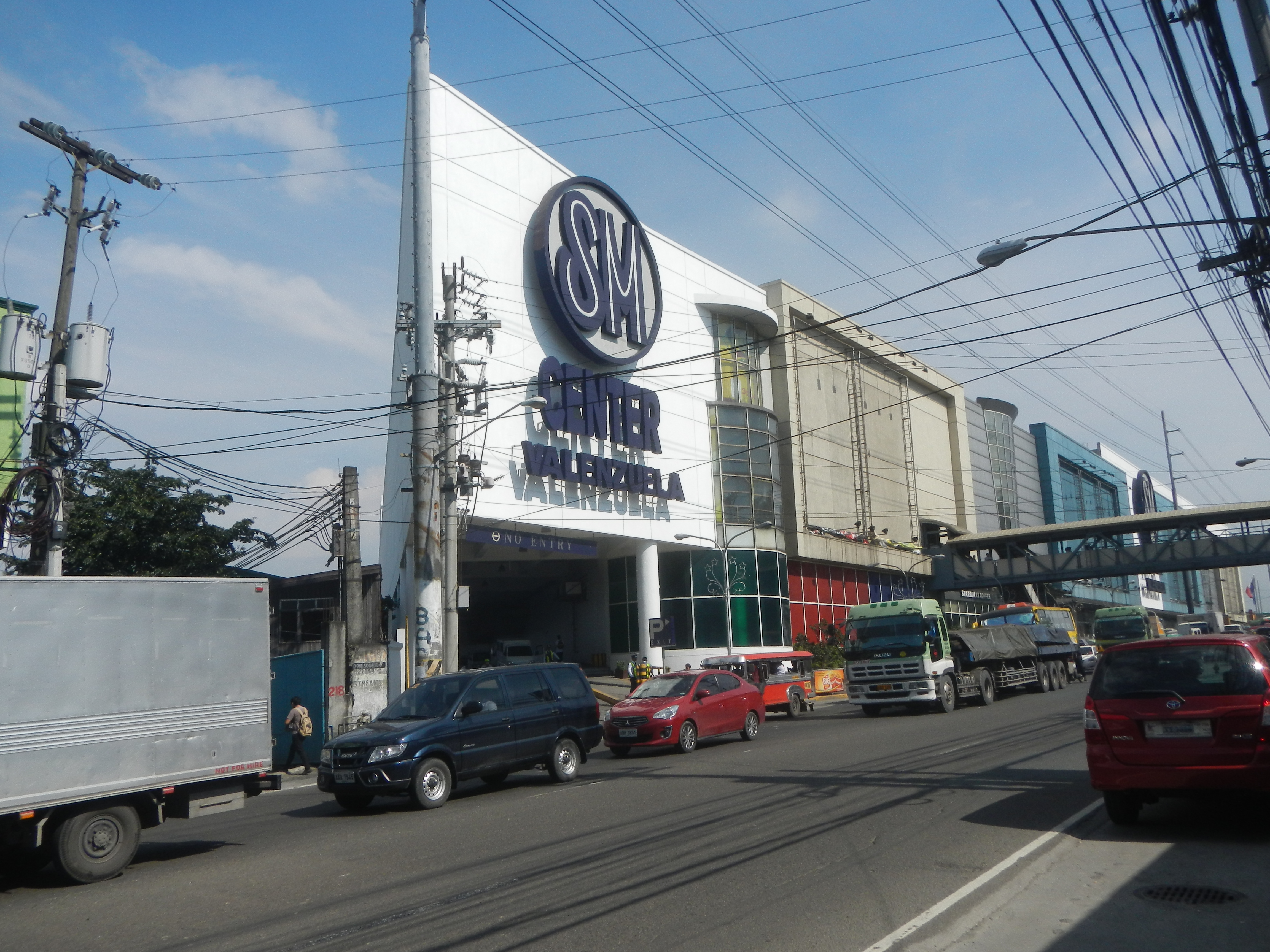 MacArthur Highway Karuhatan, Valenzuela Valenzuela city, Valenzuela, SM Center Valenzuela Lists of barangays in Philippine cities and municipalities, List of barangays in Valenzuela Tullahan Bridge, Barangay Marulas (Valenzuela) 14°40'34"N 120°59'3"E beside Malabon City beside Barangay Potrero, boundary MacArthur Highway Valenzuela, PhilippinesTullahan River, List of rivers and esteros in Manila MacArthur Highway landmark Polo Beer Brewery Plant since 1915 BrewingSan Miguel Brewery San Miguel Brewery, Inc. (SMB) of the San Miguel Corporation), Marulas, Valenzuela City (Note: Judge Florentino Floro, the owner, to repeat, Donor Florentino Floro of all these photos hereby donate gratuitously, freely and unconditionally all these photos to and for Wikimedia Commons, exclusively, for public use of the public domain, and again without any condition whatsoever).